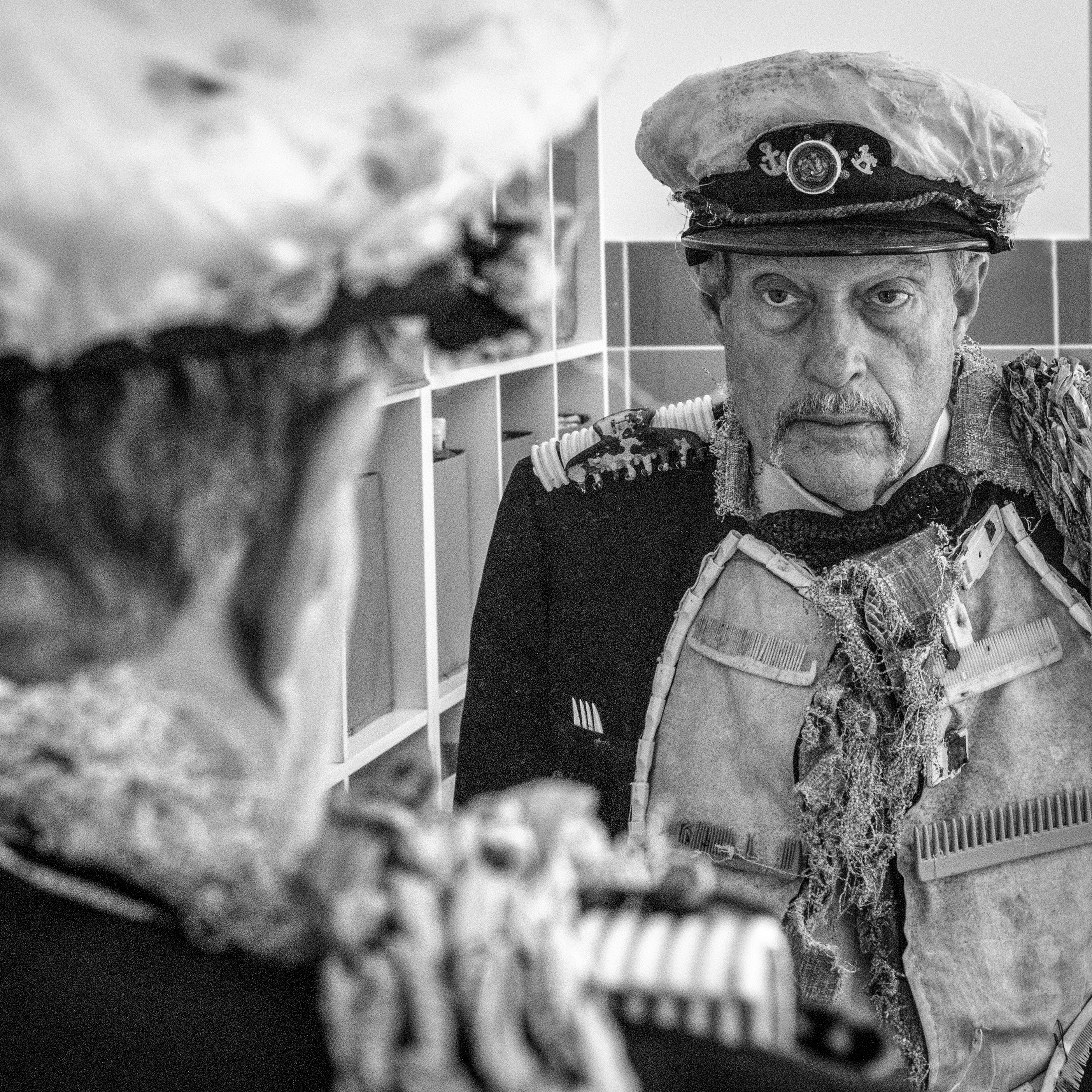 Portrait of Charles J. Moore, environmental activist